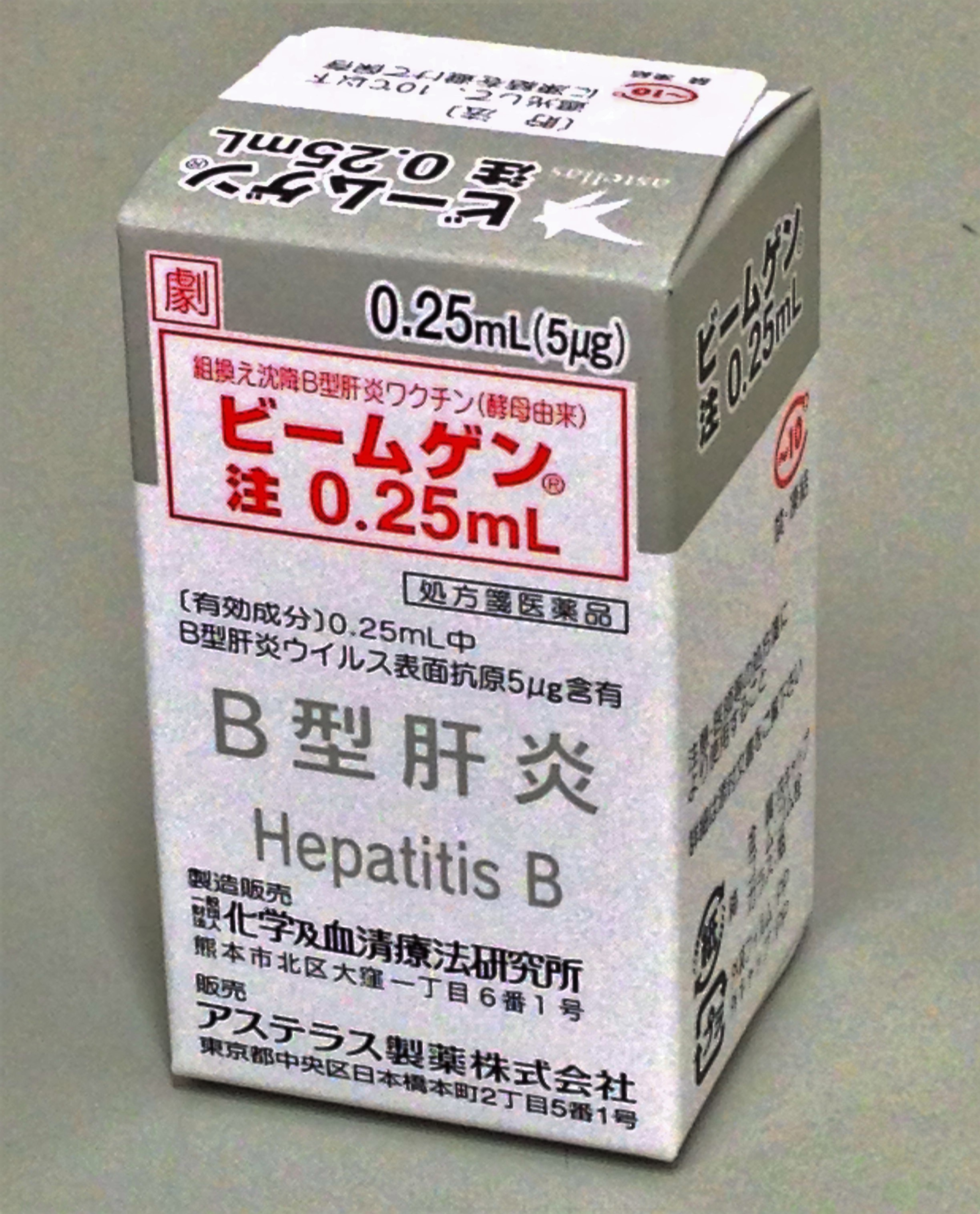 Hepatitis B Vaccines "Bimmugen"